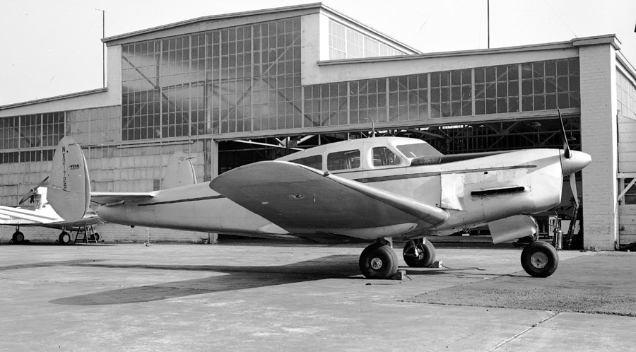 Union Air Terminal, Burbank, CA 1940. Two Menasco C-4S engines geared to one prop.